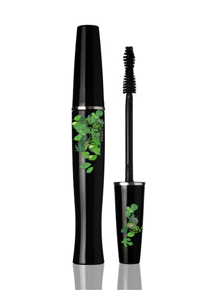 photoshopped work from original Image:Mascara de pestañas.jpg